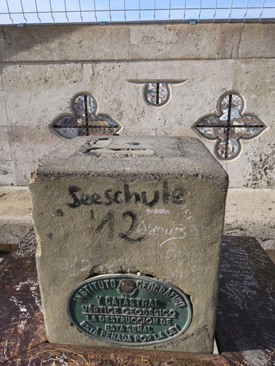 A triangulation pillar in Torre del Micalet. Valencia (Spain)